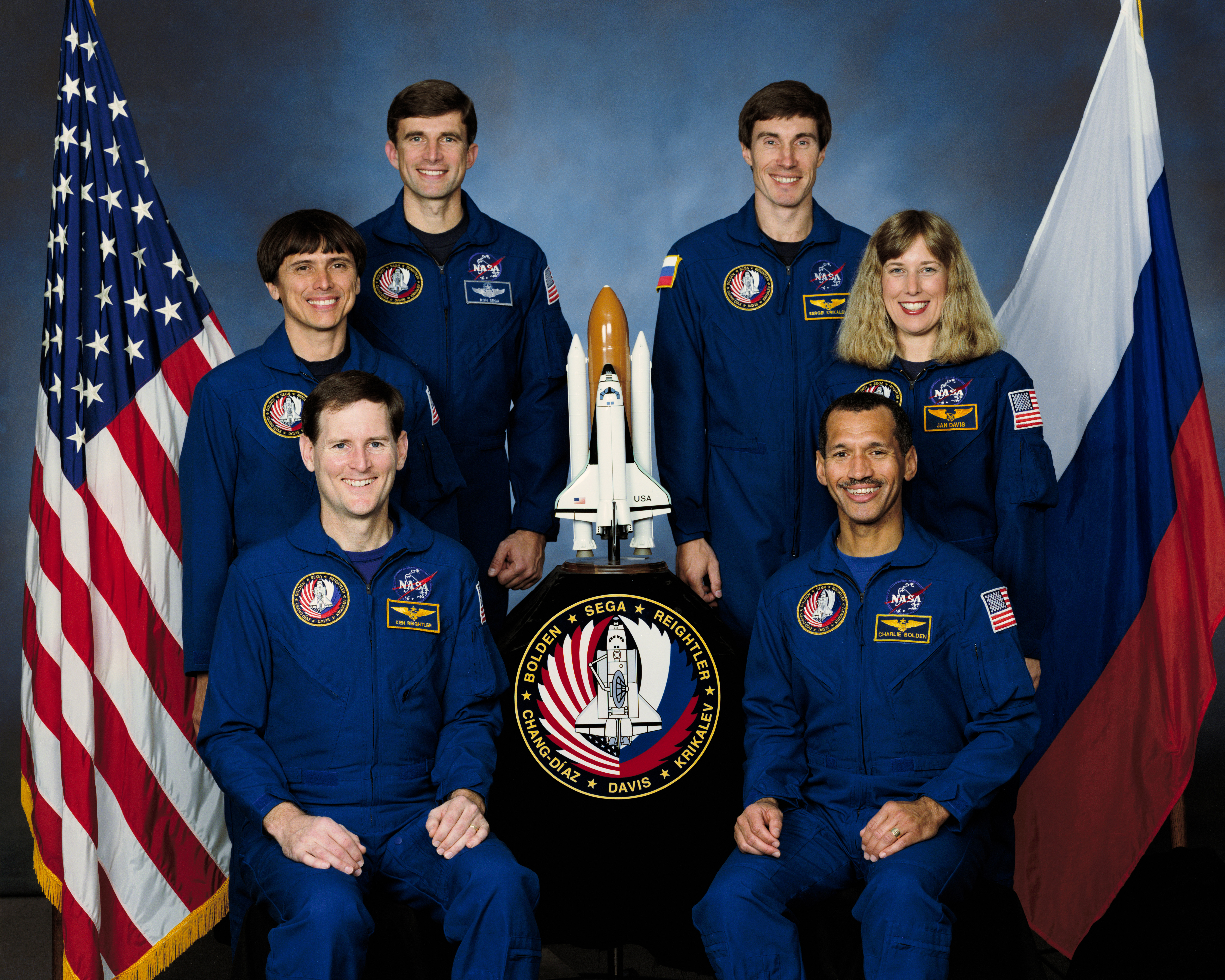 Five NASA astronauts and a Russian Cosmonaut take a break from training for their scheduled flight in space to pose for the traditional crew portrait. In the front (left to right) are Astronauts Kenneth S. Reightler Jr., and Charles F. Bolden Jr., pilot and commander, respectively. On middle row are Astronauts Franklin R. Chang-Diaz and N. Jan Davis, mission specialists. On back row are Astronaut Ronald M. Sega (left) and Russia's Sergei K. Krikalev, both mission specialists.